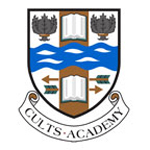 School badge